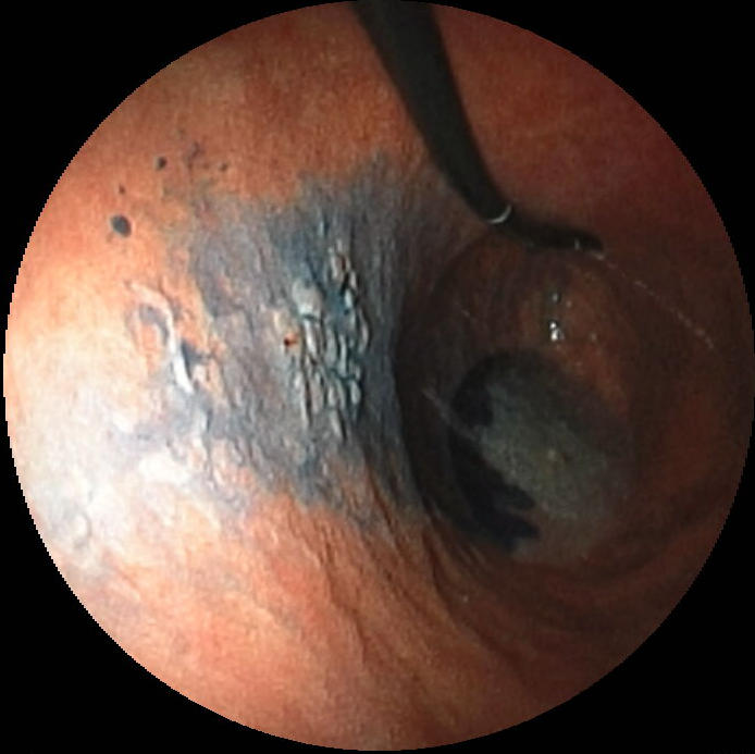 Early gastric cancer in the gastric body, stained with indigo carmine